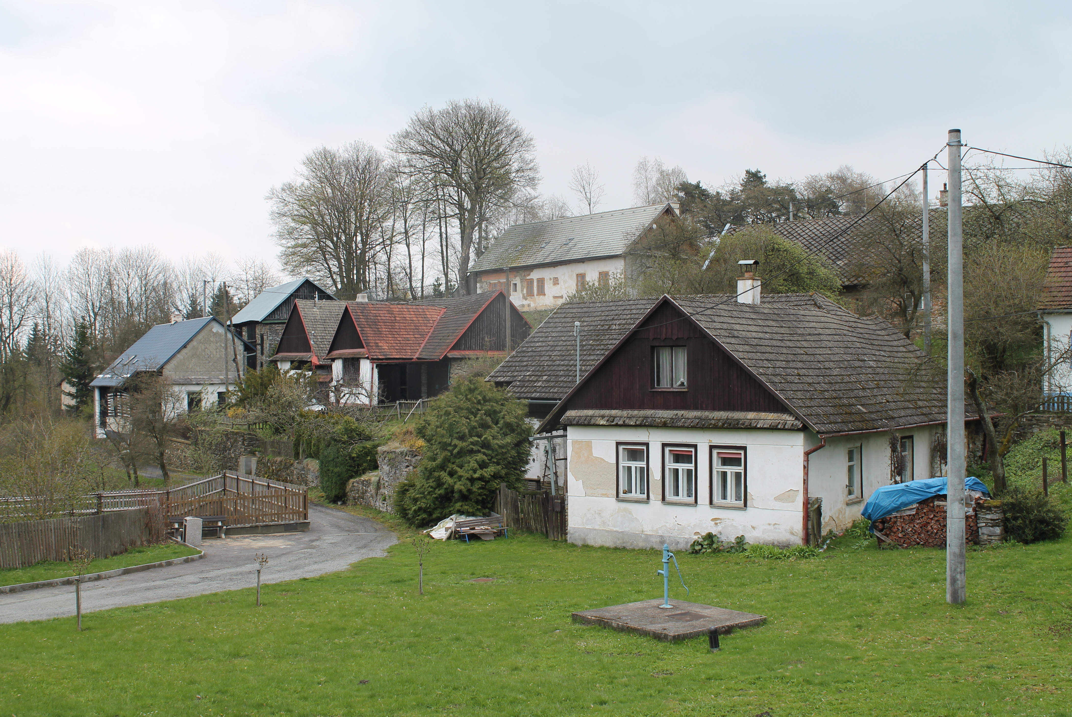 Veselka, Kněževes, Blansko District, Czech Republic This photograph was taken during a group photography field trip by Brno Wikipedians: 2017-04-29.